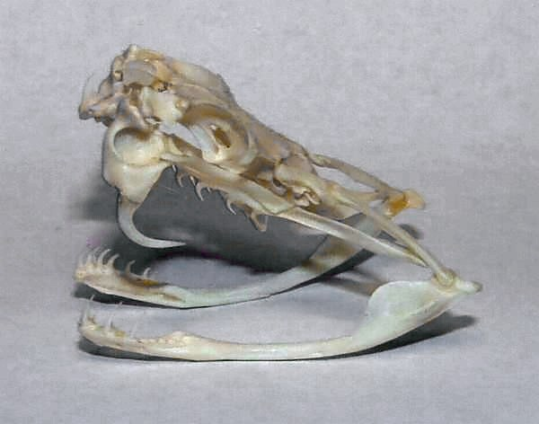 Skull of a rattlesnake, unknown species, probably atrox